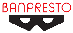 This is the Logo for Banpresto Co., Ltd.